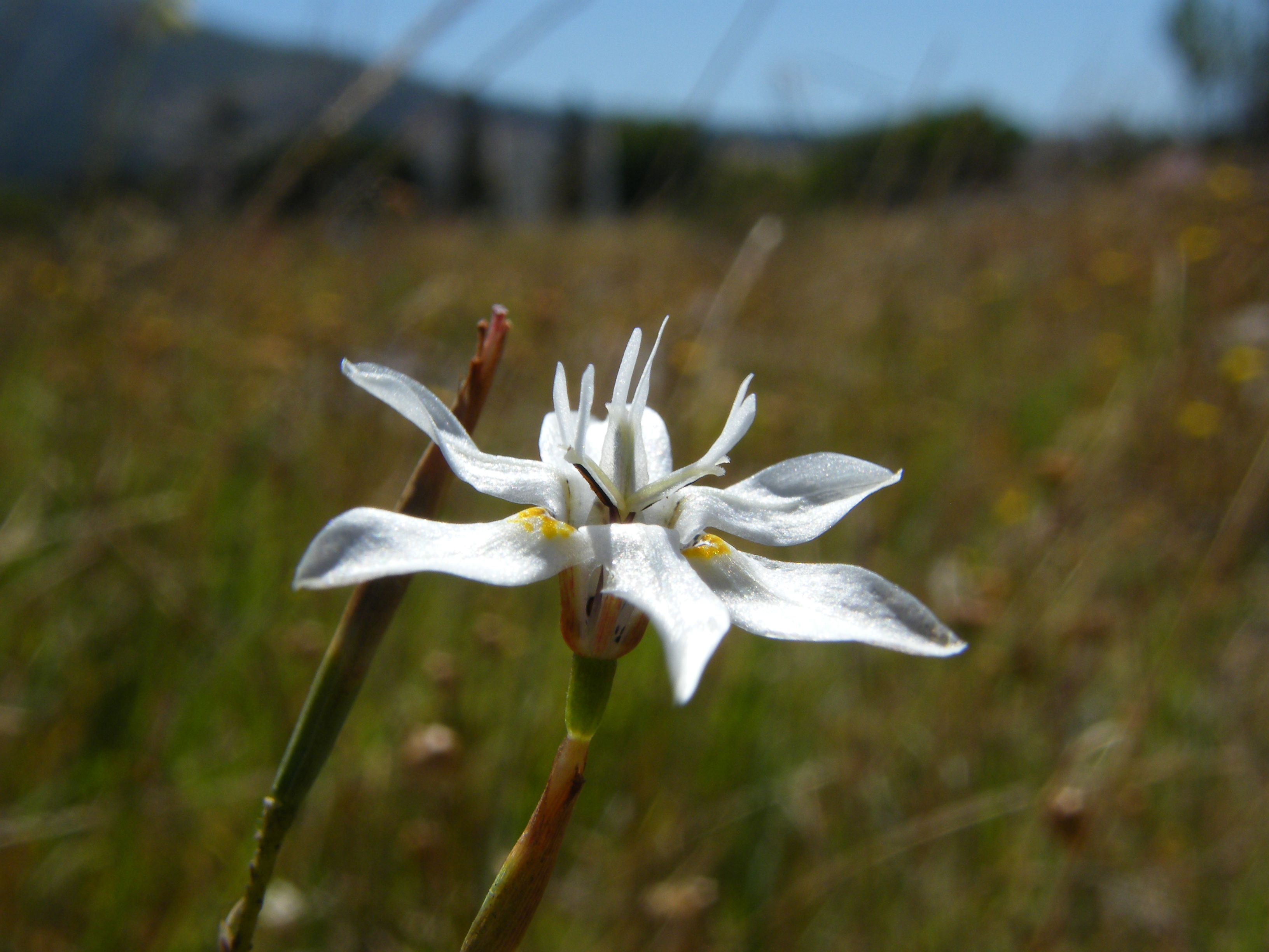 Moraea